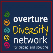 European Scouting Overture Diversity Network